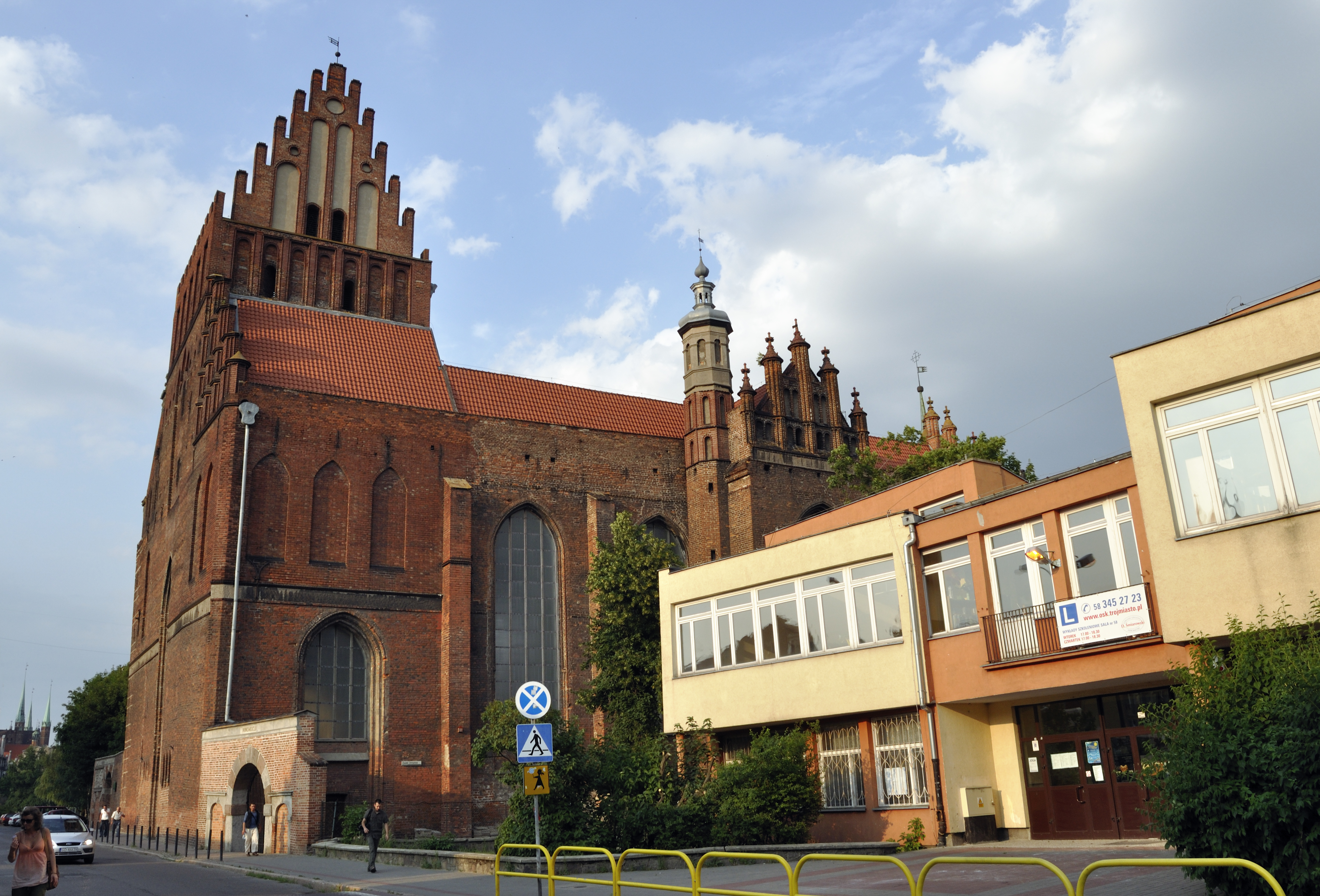 Church of Saints Peter and Paul in Gdańsk (Picture taken in Gdańsk after Wikimania 2010 conference).